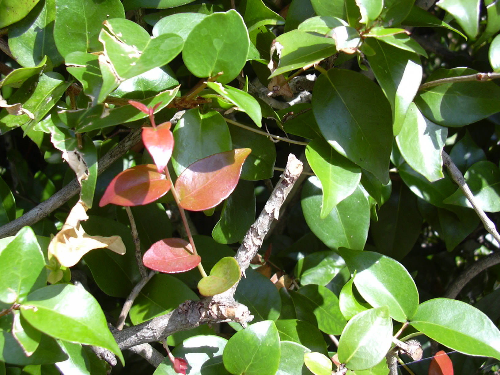 Eugenia uniflora (leaves). Location: Florida, Sarasota